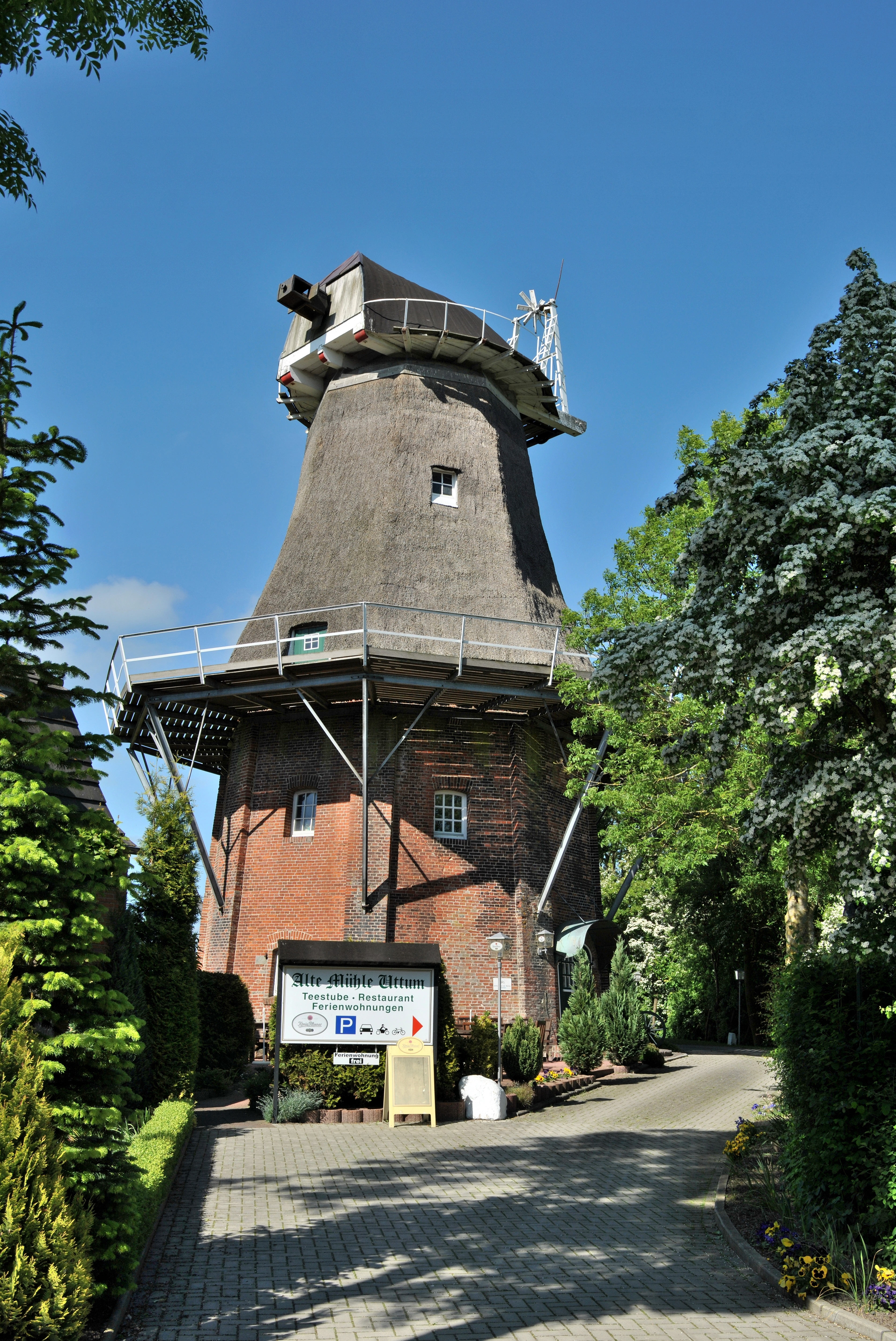 The Alte Mühle («Old Mill») in Uttum, Krummhörn (East Frisia, Lower Saxony, Germany).